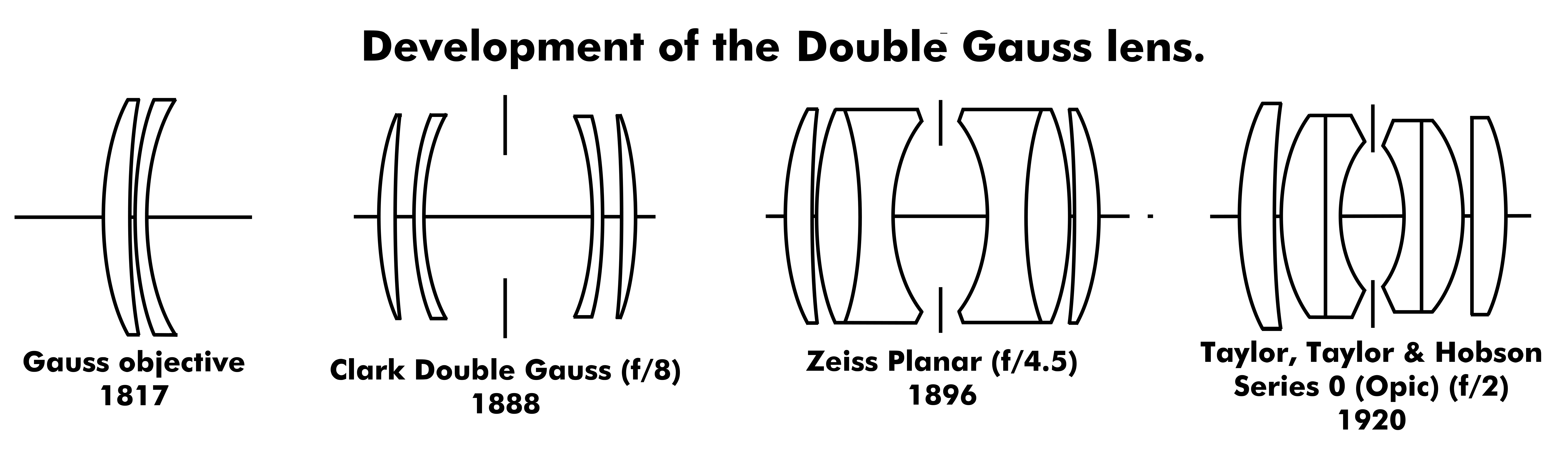 Derived from File:DoubleGauss1text.svg